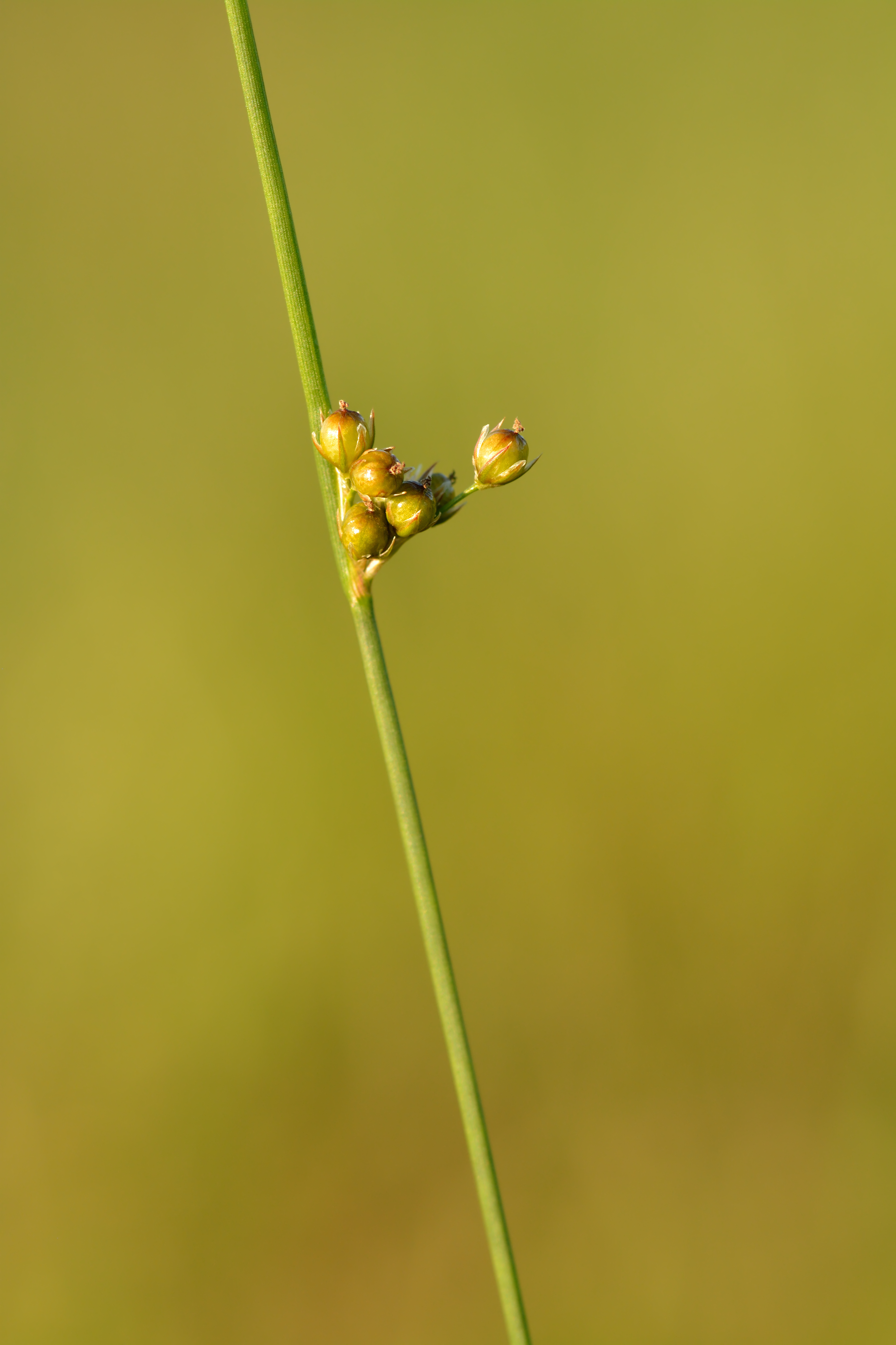 Juncus filiformis - thread rush in Keila, Northwestern Estonia.